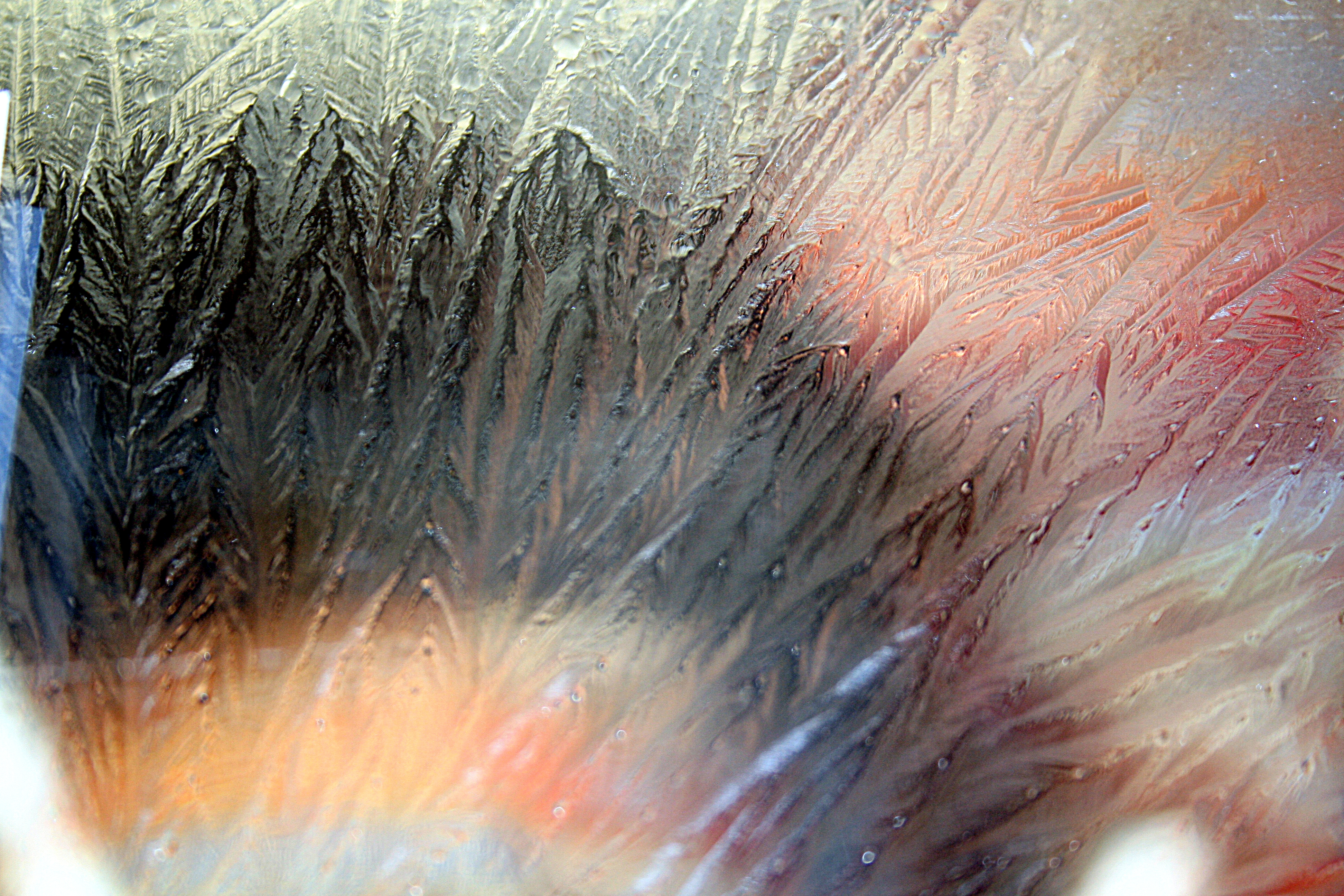 Ice crystals at refrigerator window